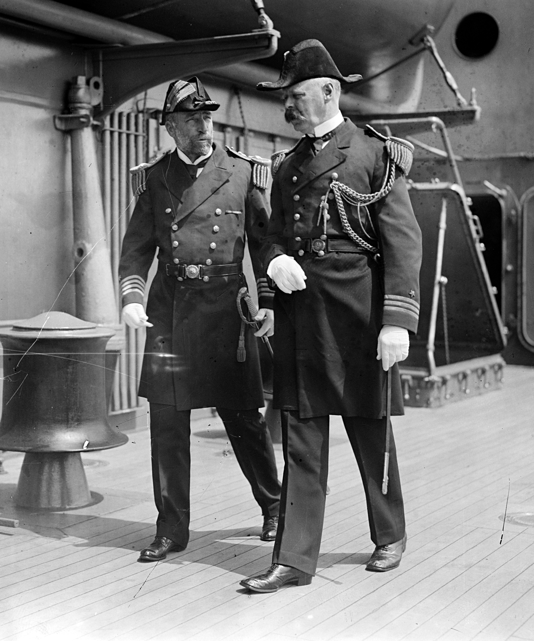 James Harrison Oliver (left) and Charles Frederick Hughes, Admirals of the US Navy